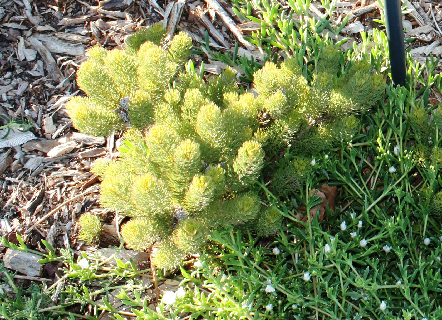 Serruria aemula. The critically endangered Strawberry Spiderhead plant of the Cape Flats. Cape Town. South Africa.